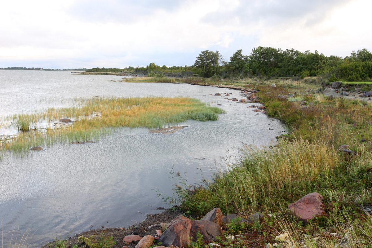 Kukeküla, Lääne County, Estonia